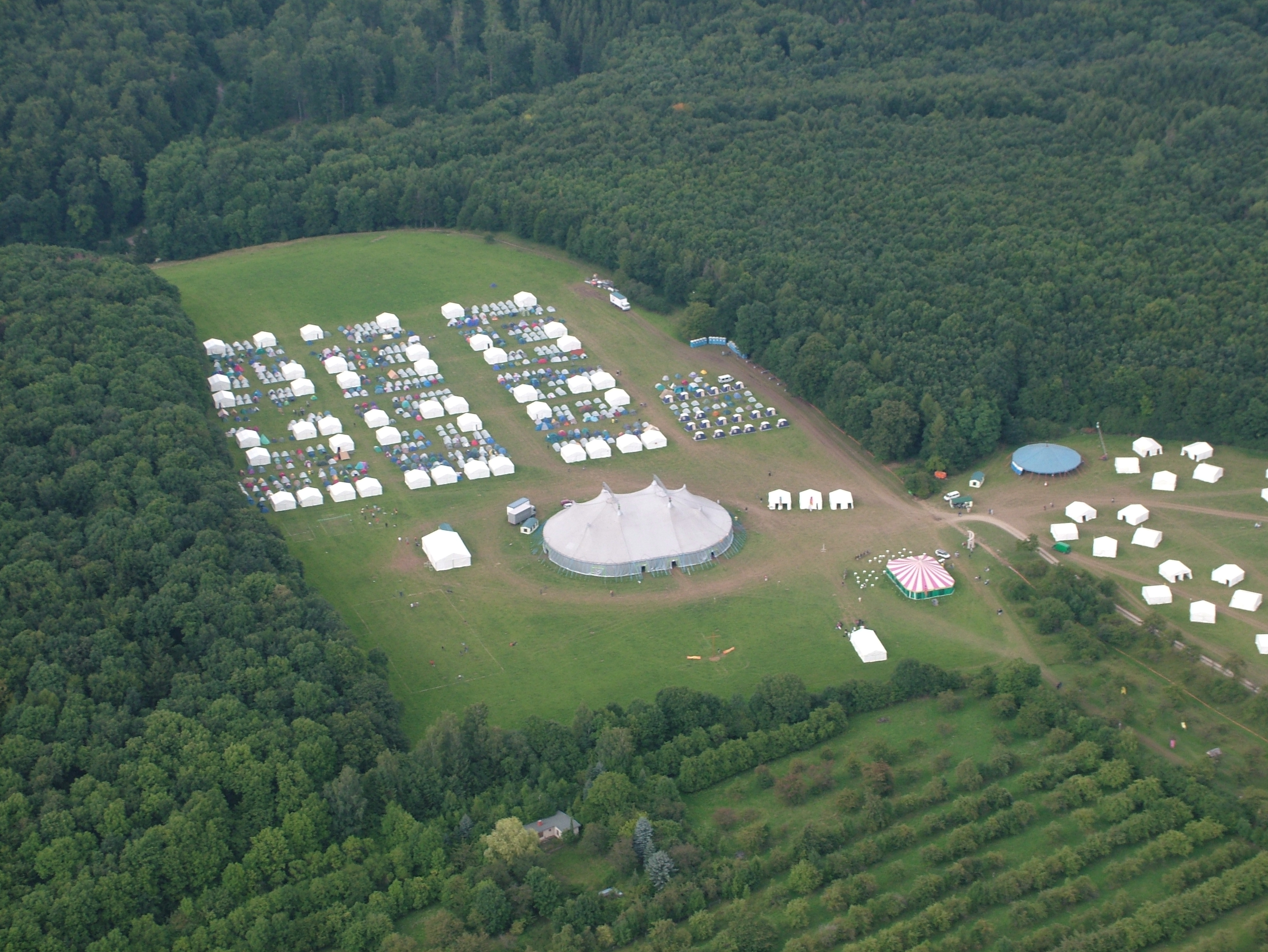 Meeting organized in Volkenroda (Thuringen, Germany) by Chemin Neuf Community during WYD 2005 - Global sight of the camp